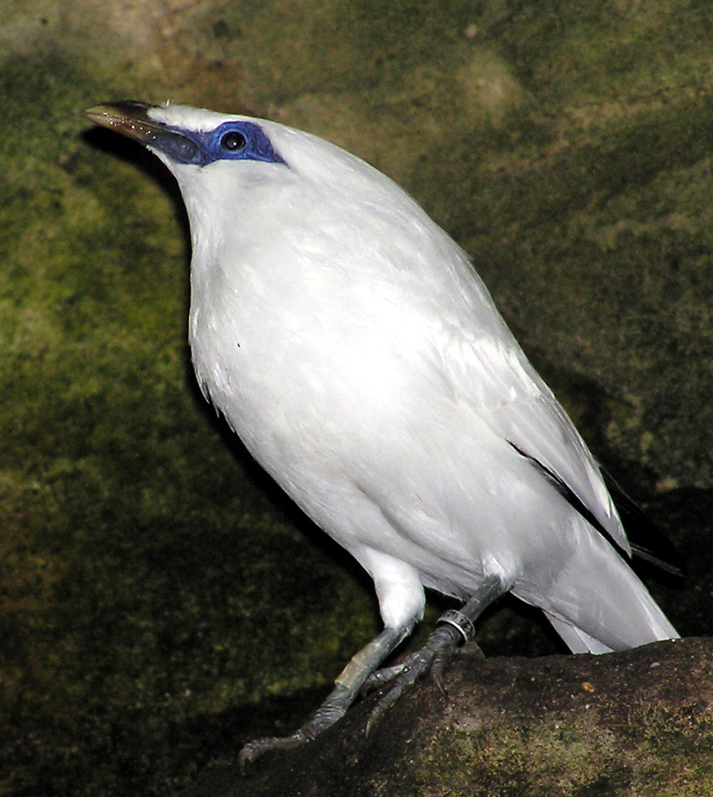 Bali Starling (Leucopsar rothschildi) in the aviary at Bristol Zoo, Bristol, England.